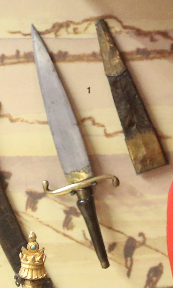 Photo of a plug Bayonet and sheath dating from the 1650s